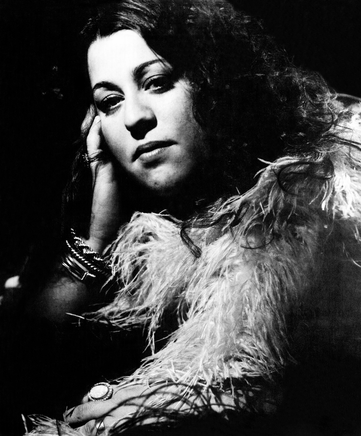 Trade ad for Cass Elliot's album Cass Elliot. To better adapt it to his respective Wikipedia article, the ad was cropped and cleaned in a graphics editing program. The original can be viewed at the source below.